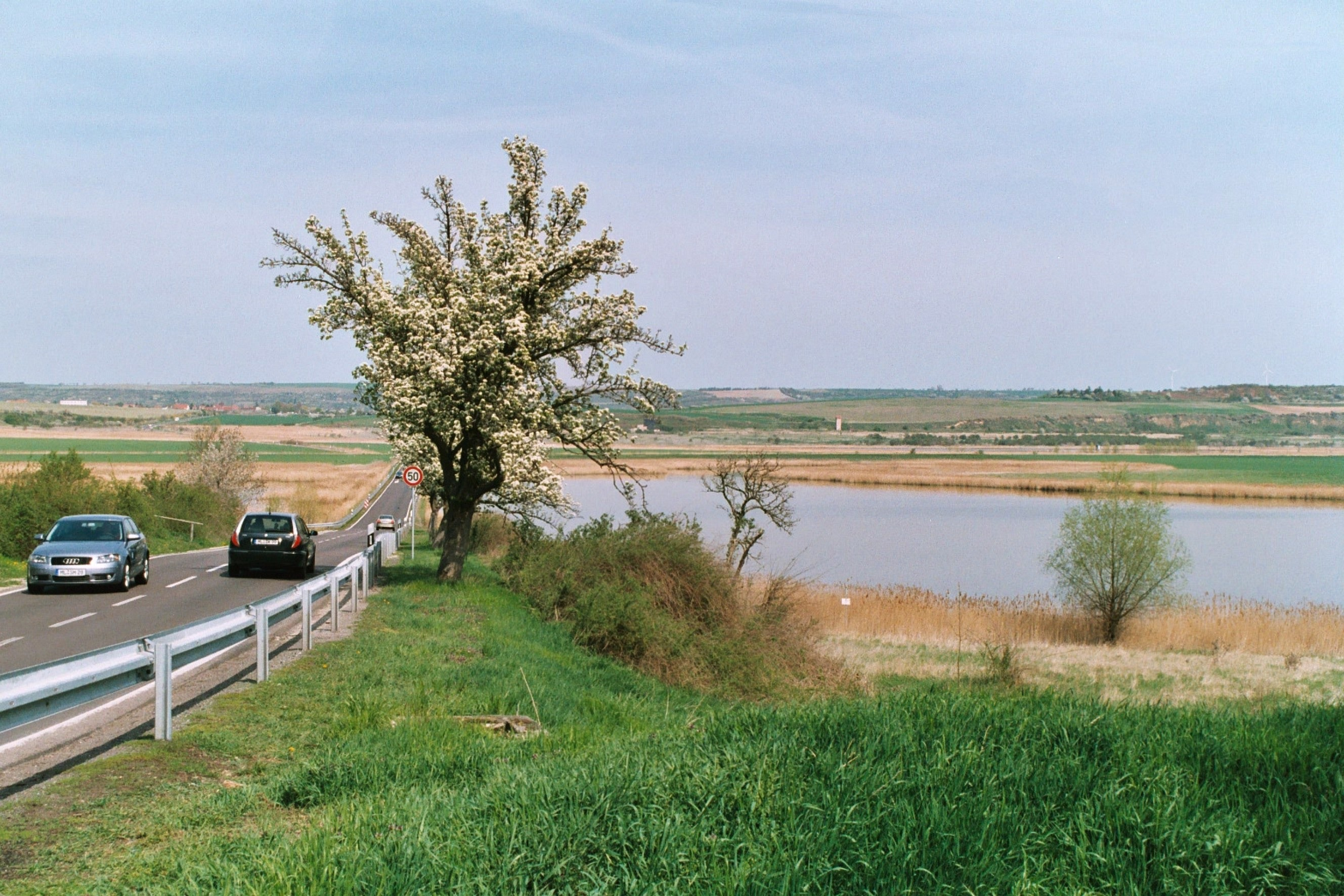 Röblingen (Seegebiet Mansfelder Land), the street across the "Salziger See"